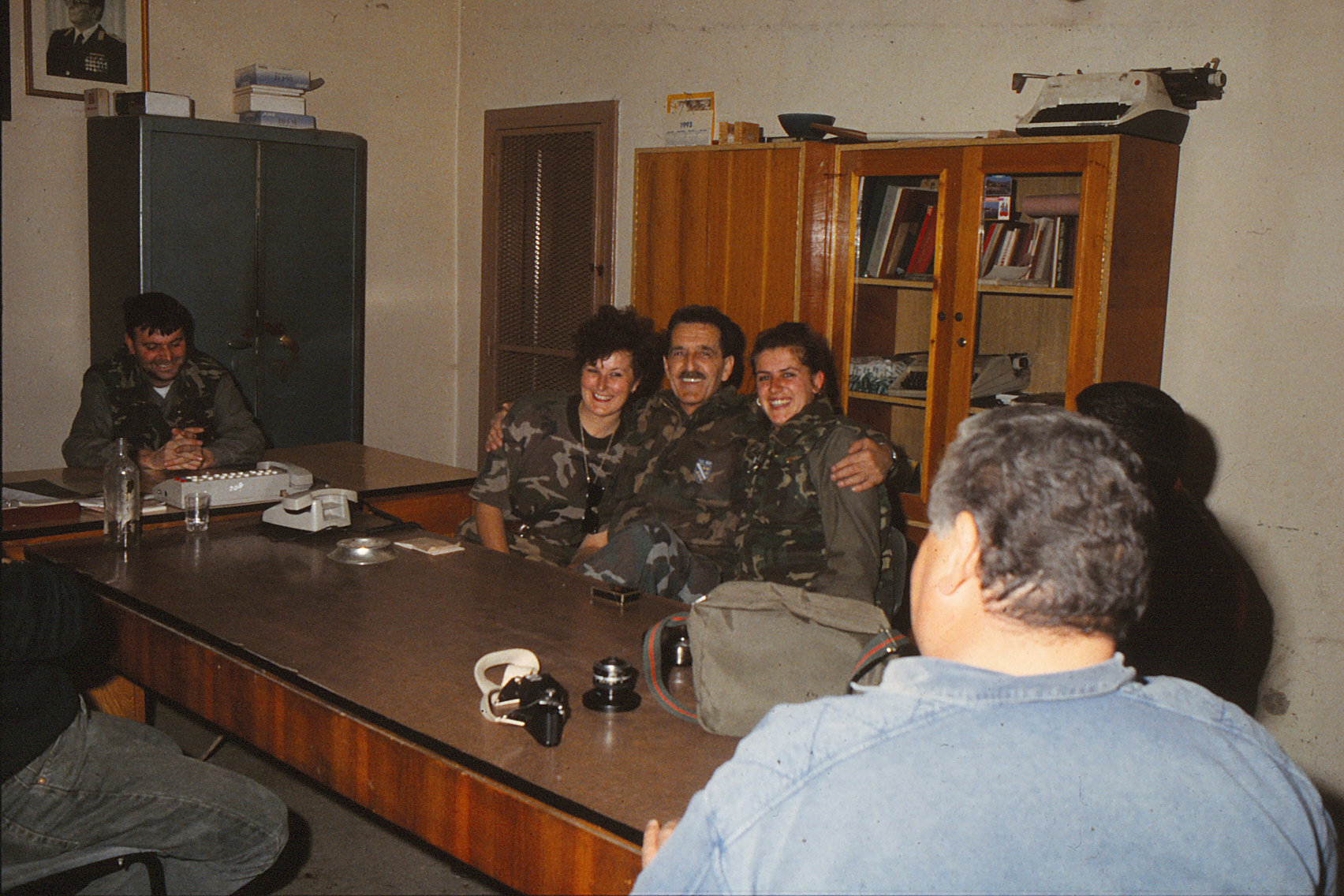 Pics from the first travel of Giovanni Zanchini to Visoko, Bosnia and Herzegovina, in 1992. Released under CC0 (Public Domain) within Osservatorio Balcani e Caucaso's "Cercavamo la pace" crowdsourcing project